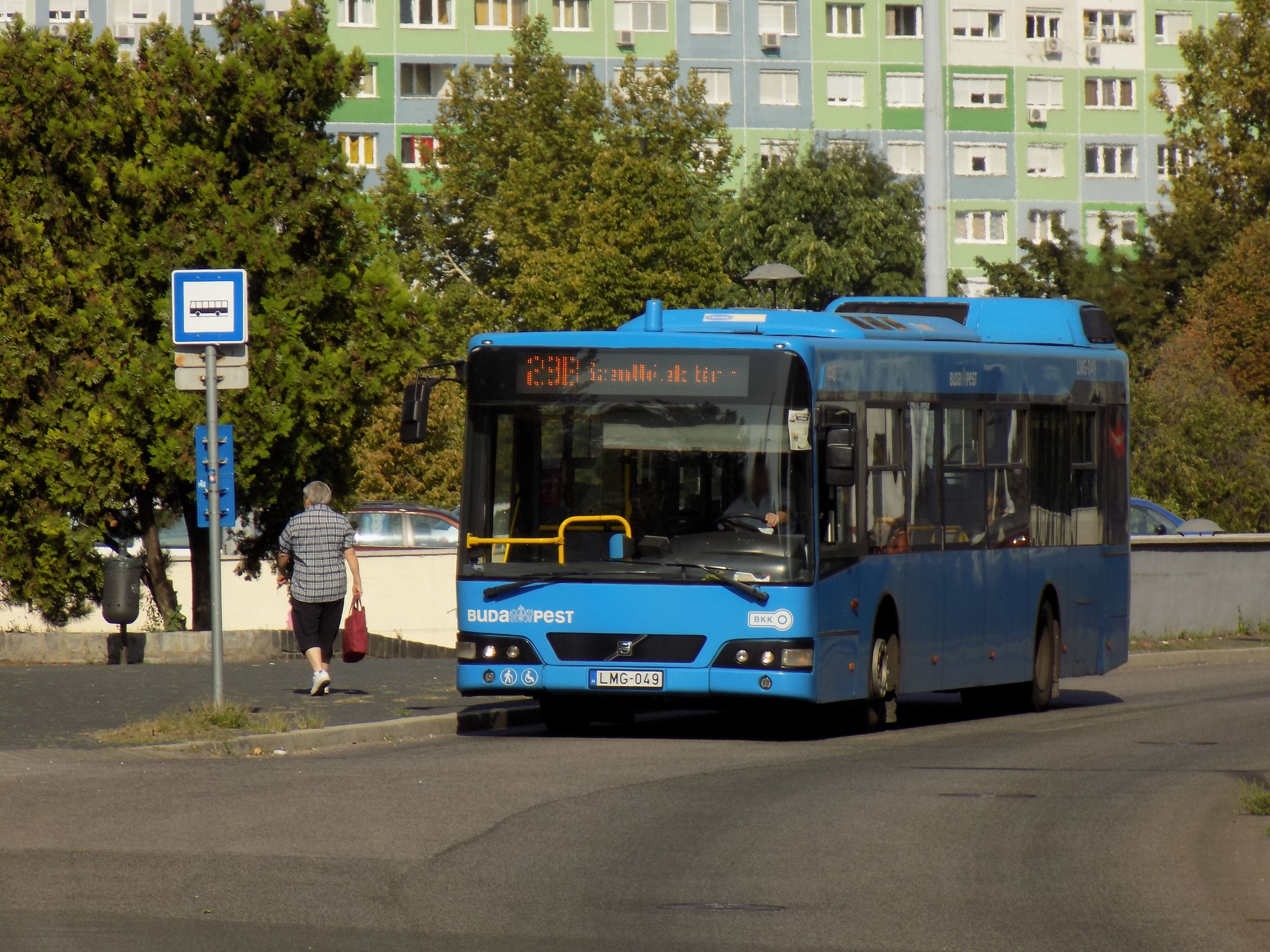 Volvo-Alfa Cívis 12 bus, Budapest, bus line 29B (reg. LMG-049)